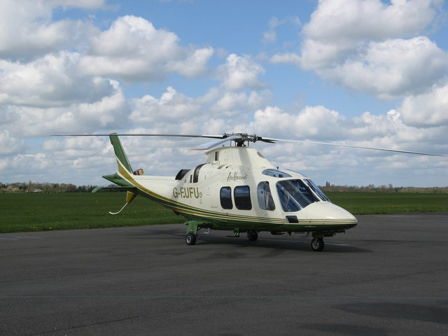 Agusta A109S helicopter at Oxford Airport, Kidlington, Oxfordshire